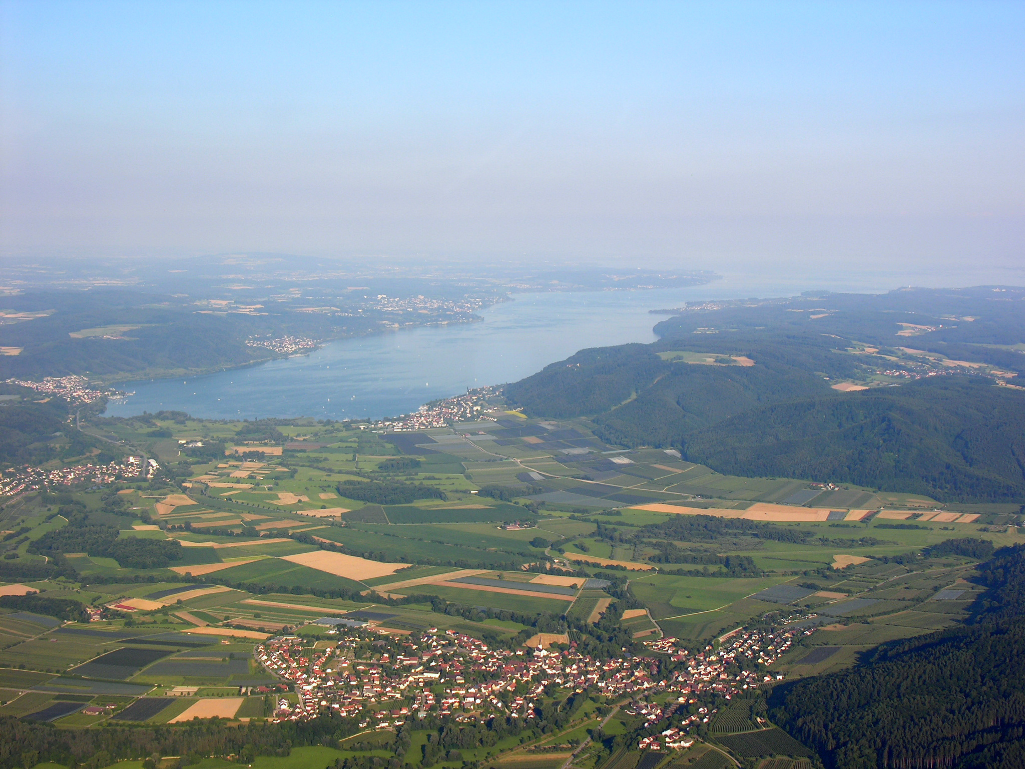 Aerial View of Wahlwies